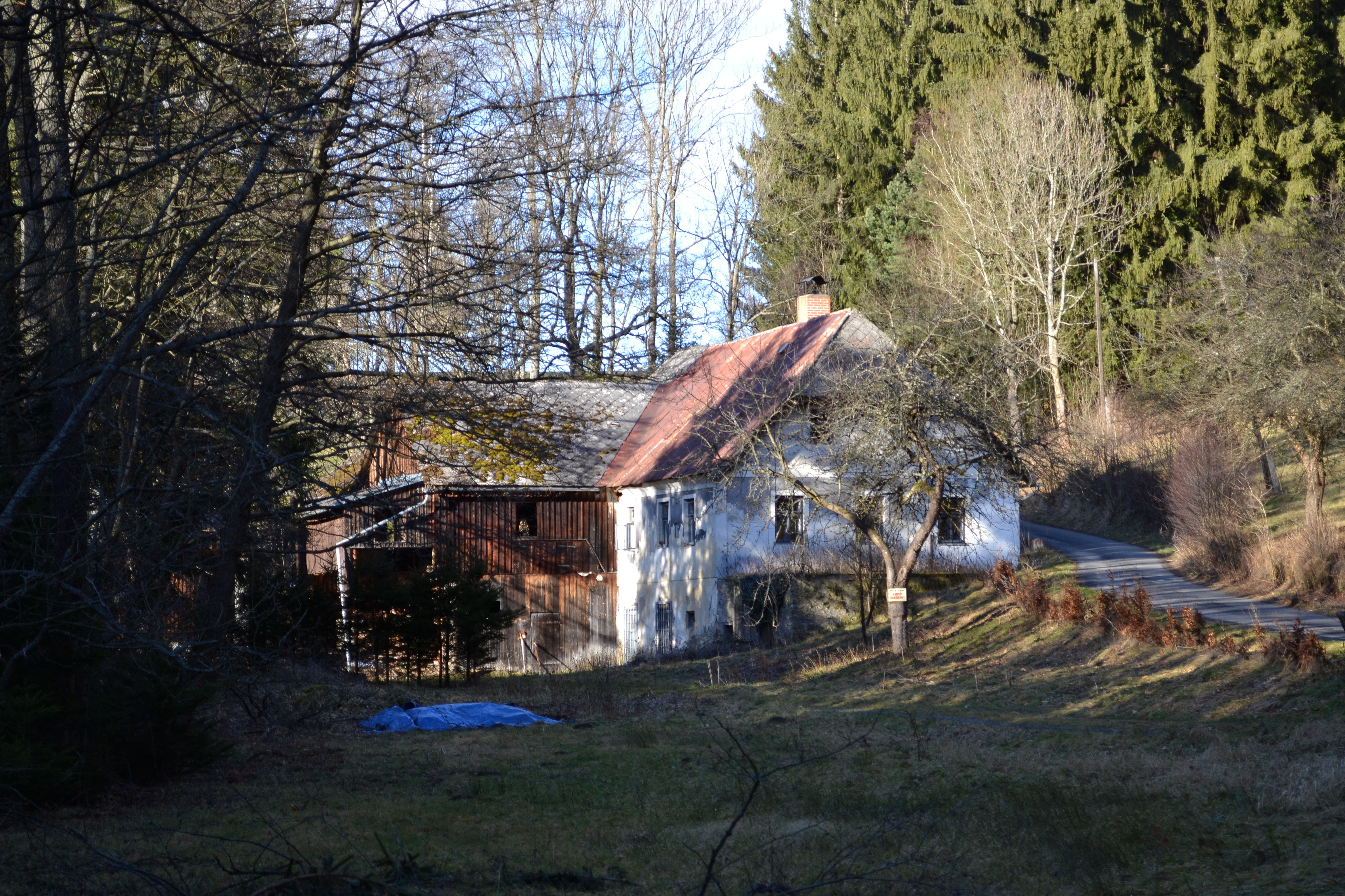 Watermill "Rajský mlýn" on the Ostružná river, Rajské village (part of Běšiny), Klatovy district, Czech Republic.